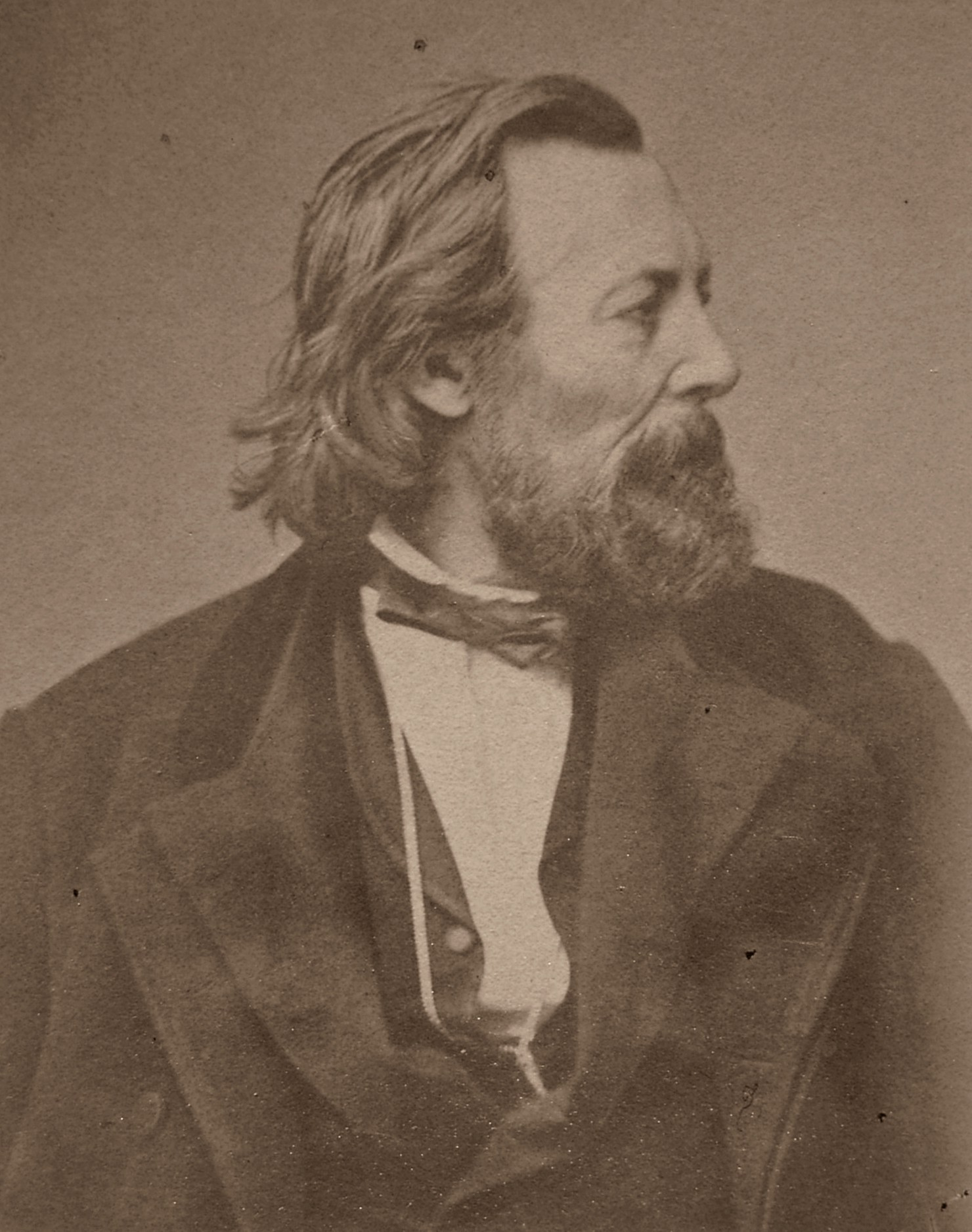 Portrait of August Wilhelm Ferdinand Schirmer (1802 - 1866), landscape artist.